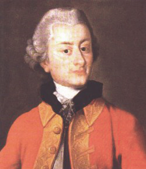 This is a reproduction of over 200 years old portrait.